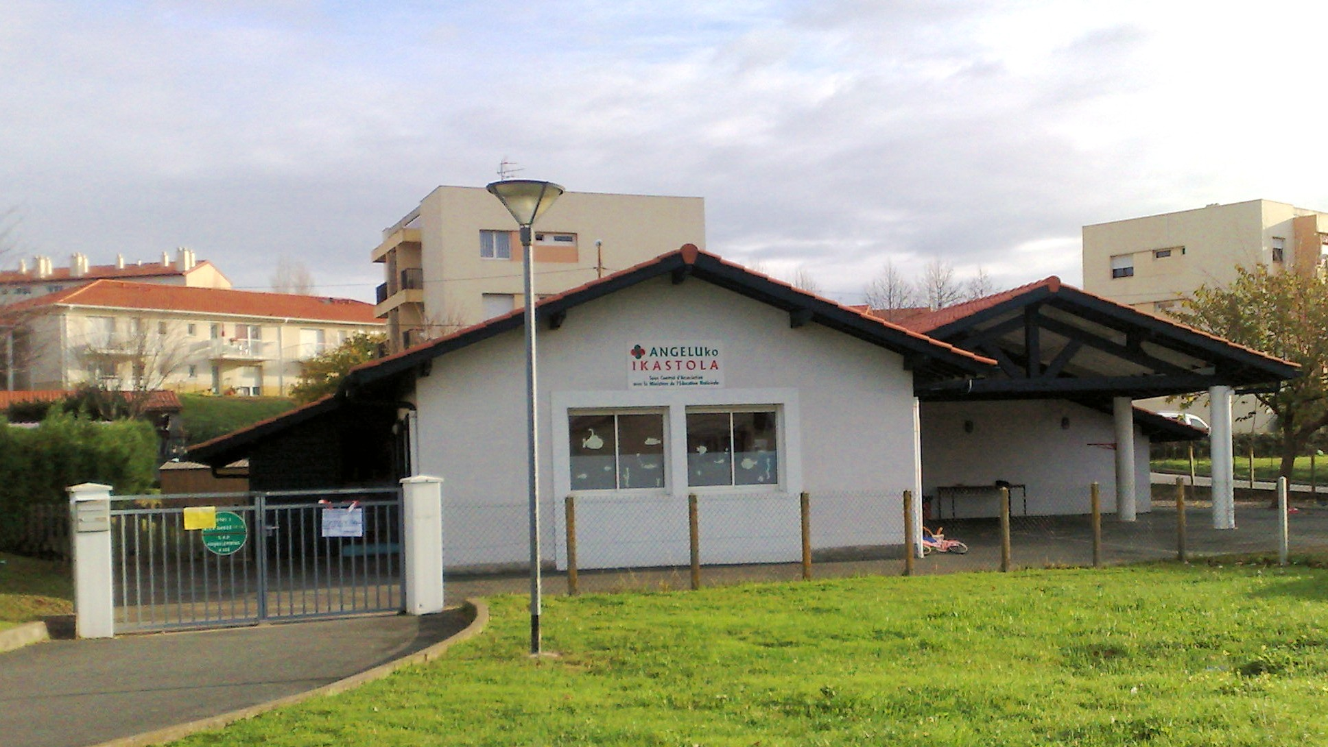 Ikastola (Basque language school of the Seaska Federation) in Angelu-Anglet, Labourd, Basque Country.